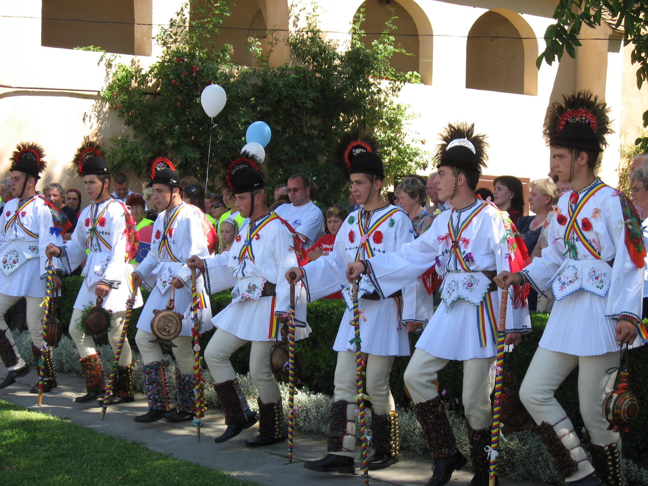 Căluşari dance at the Saxon fortress church in Cristian, Sibiu, Romania, on the occasion of the visit of the Belgian King Albert II and his wife, Queen Paola.